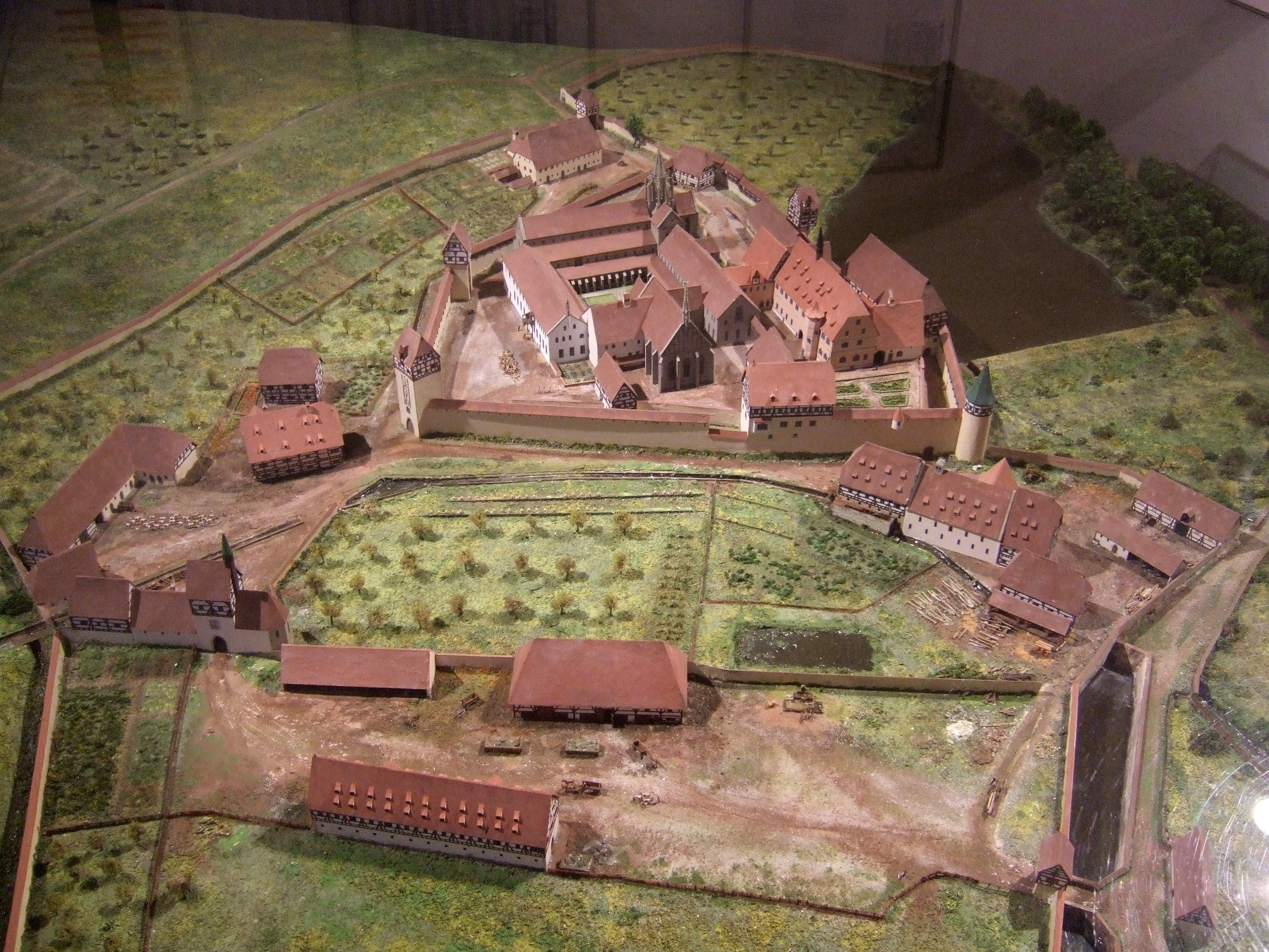 Bebenhausen monastery: Architectural model (place of photography: entrance room)